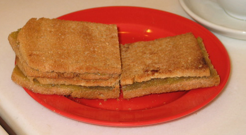 Kaya toast from Ya Kun Kaya Toast in Singapore.